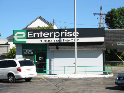 Photo by George C. Campbell October 3, 2004